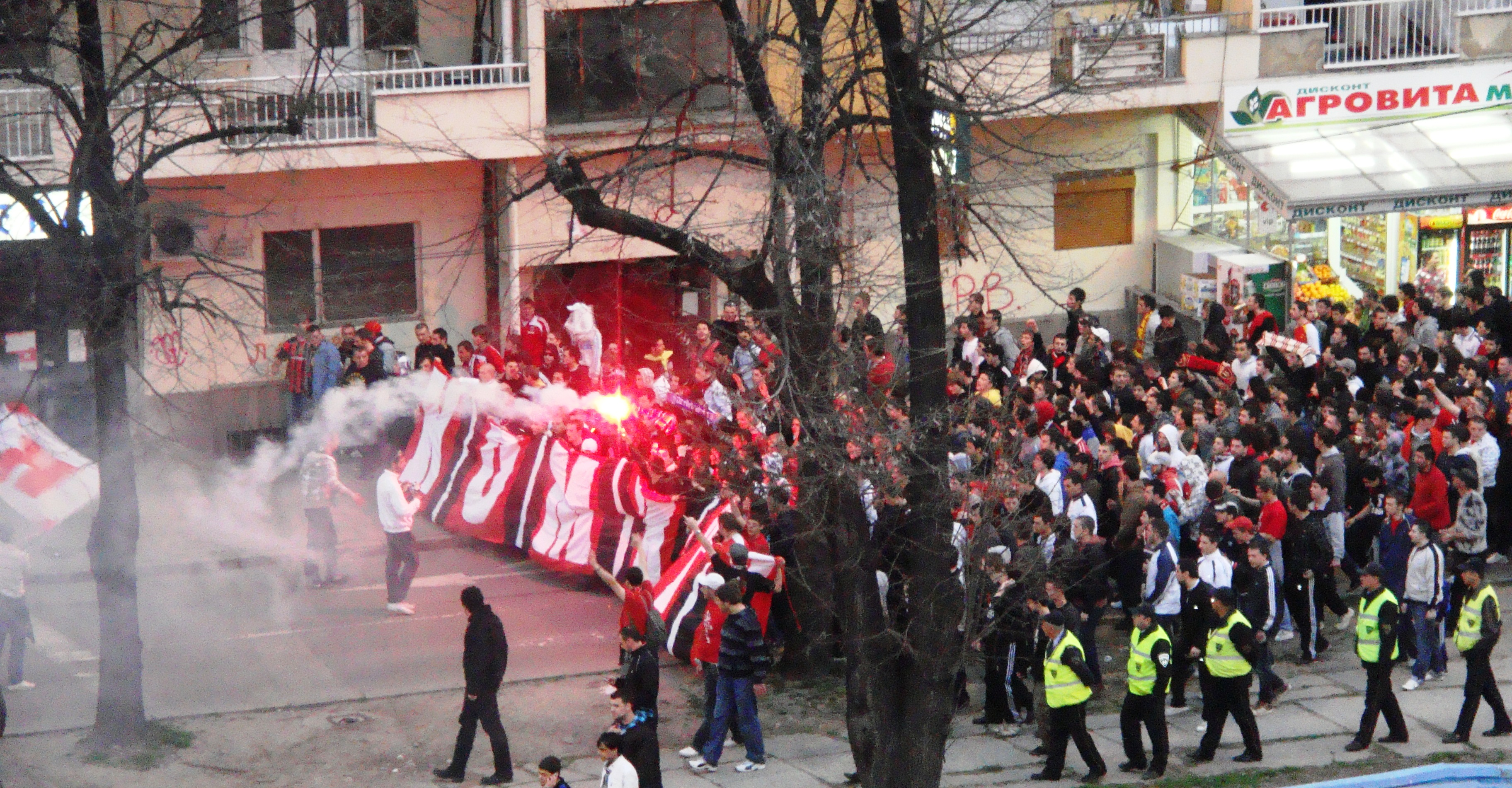 Komiti Skopje or Komiti Zapad, going at the football match through streets in Skopje.